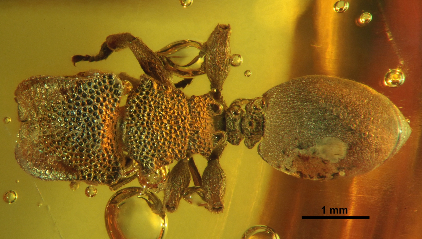 Dorsal view of of a Cephalotes serratus worker. (Holotype of the Synonymous species Exocryptoceras truncatus) Dominican amber, Burdigalian; Dominican Republic, Hispaniola Staatliches Museum fur Naturkunde, specimen SMNSDO5693